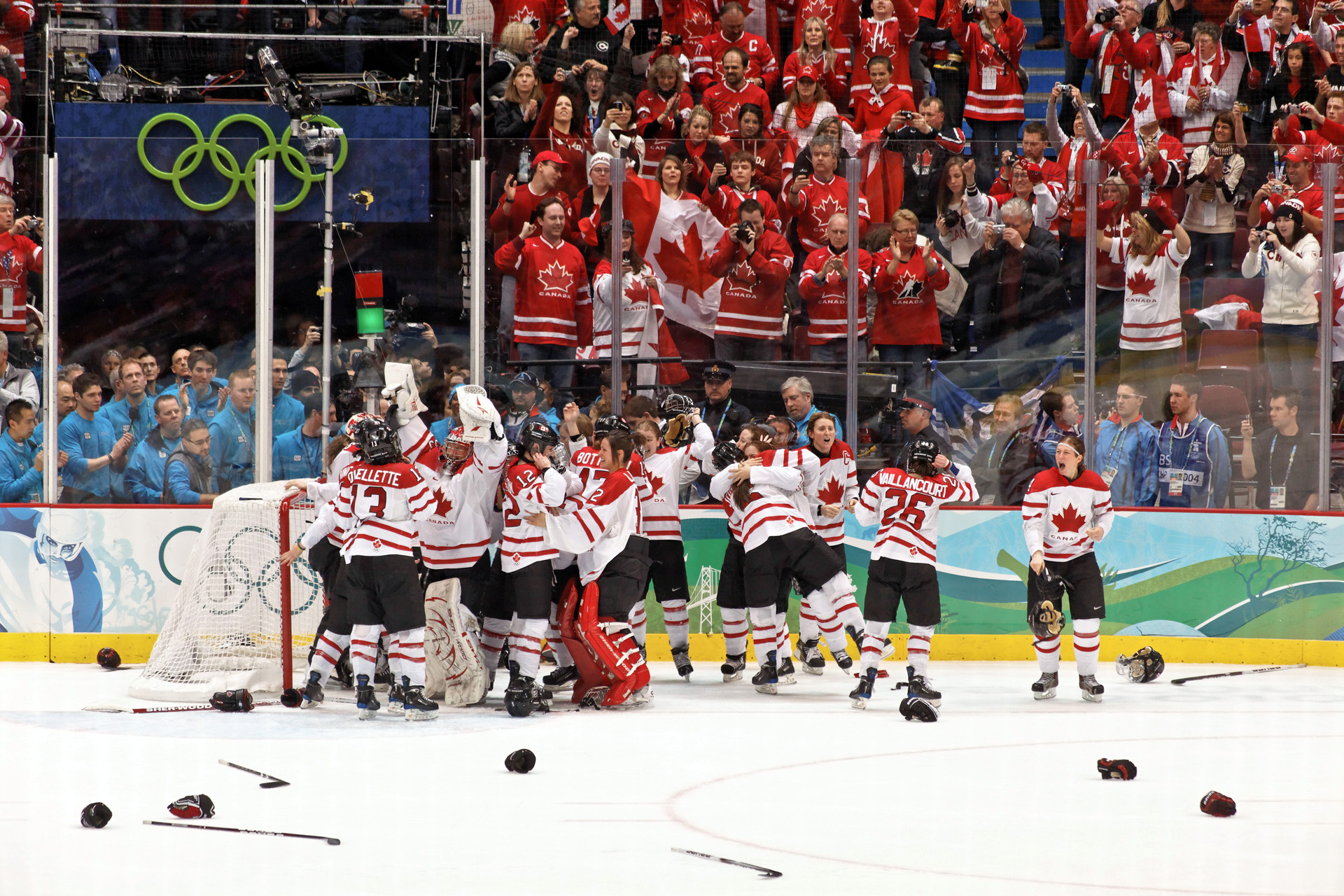 The Canadian women's ice hockey team celebrates their gold medal victory over the United States at the 2010 Winter Olympics